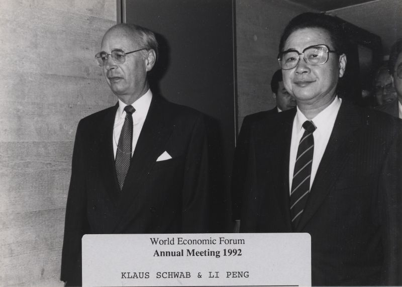 World Economic Forum Annual Meeting 1992 - Li Peng & Klaus Schwab